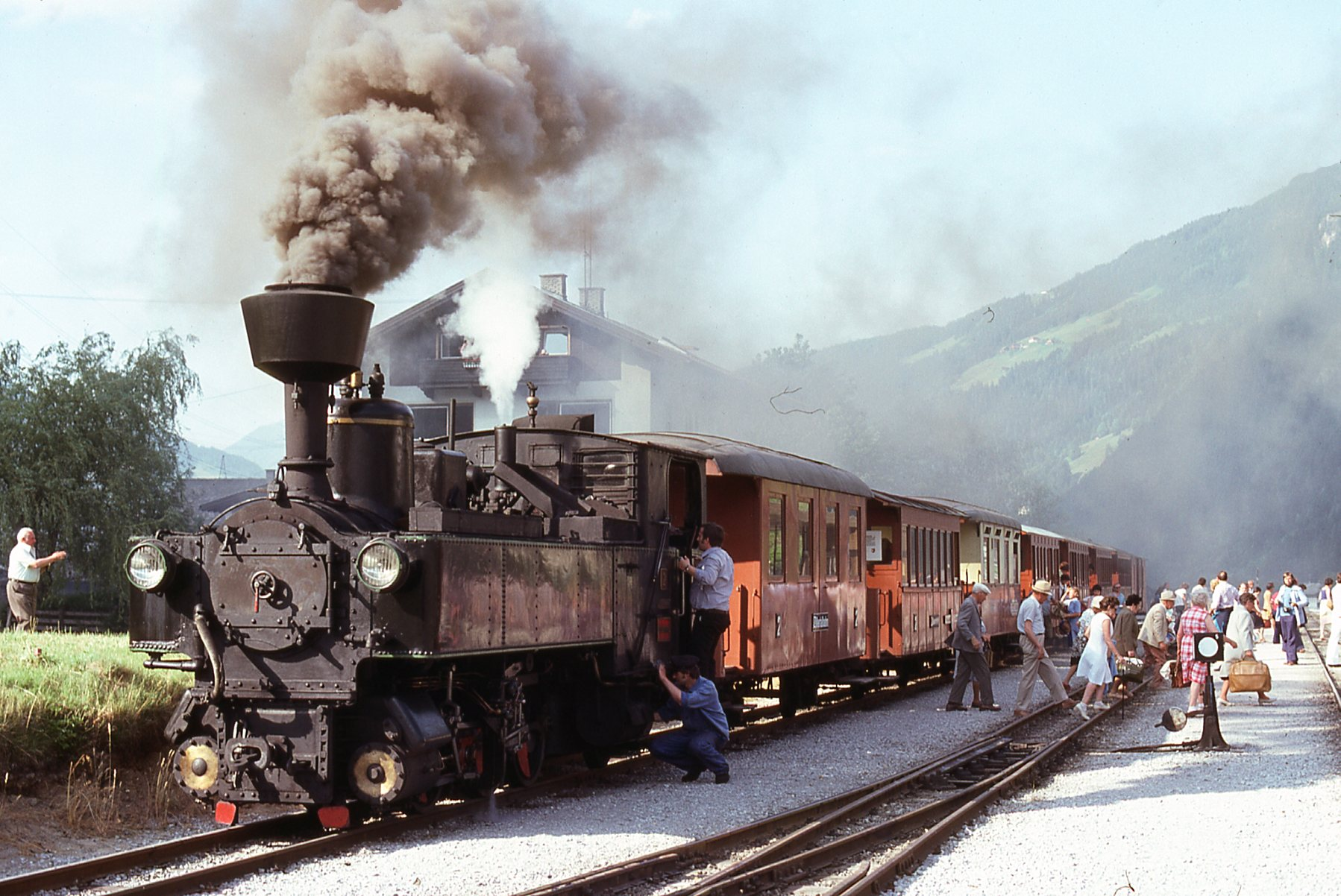 Zillertalbahn tourist train with engine No 2. at Mayrhofen